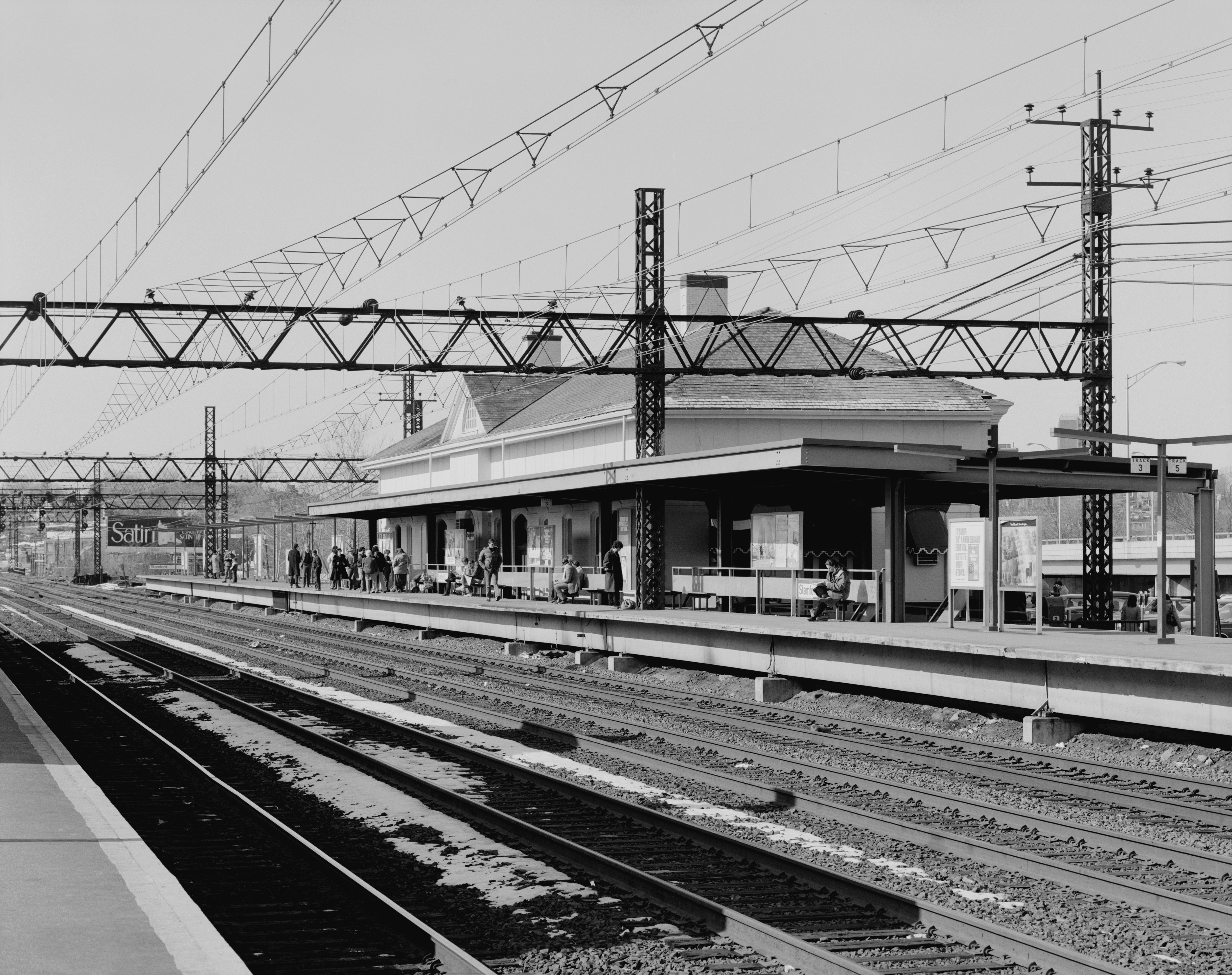 Stamford, Conn. 3/4 view of westbound station from trackside showing catenary.